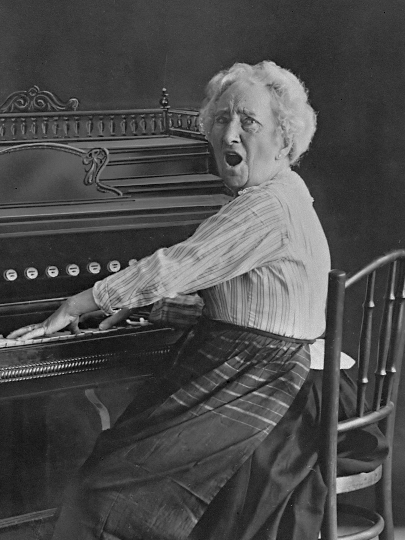 Repro's, Esther de Boer-van Rijk in verzoekrollen 14 juni 1954